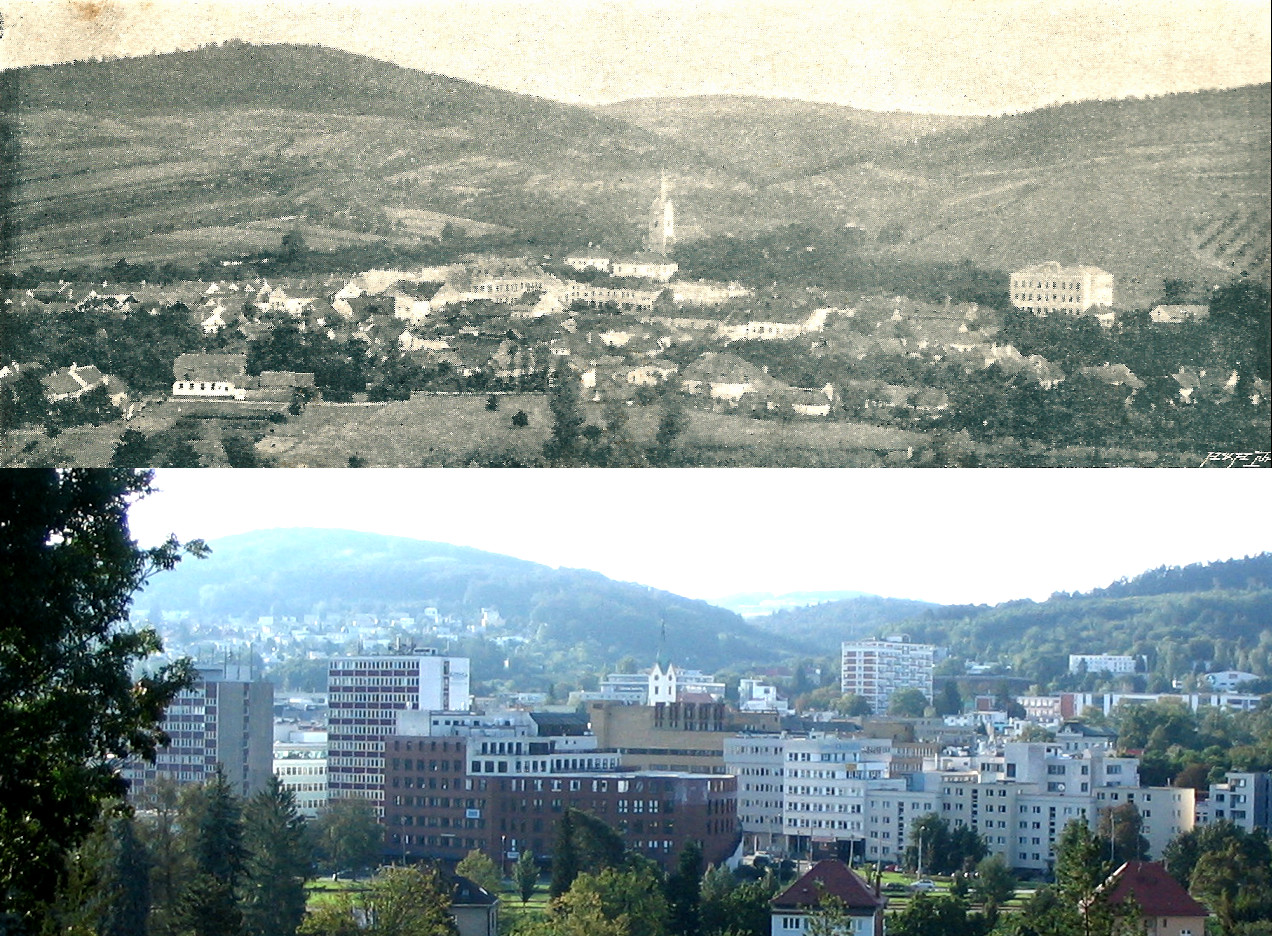 This is comparison of Zlín town in 1898 and 2019. The old photo is from an old postcard from 1898, which I have scanned, the new one I have taken myself from roughly the same place, in 2019.